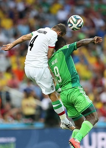 Iran and Nigeria match at the FIFA World Cup